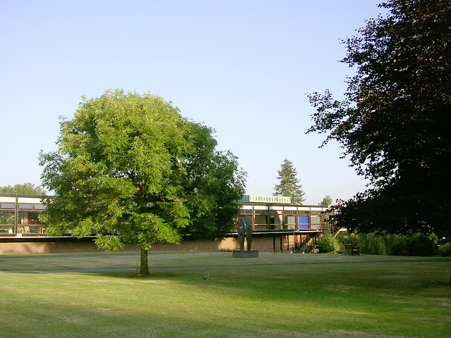 Staff Club, gardens and sculpture, Highfield Campus, University of Southampton